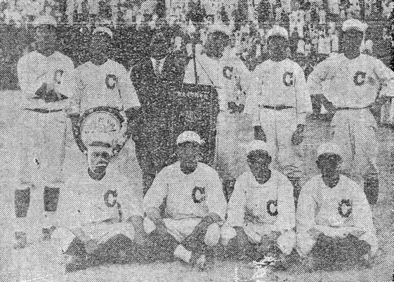 Baseball at the 1922 Korean National Sports Festival.